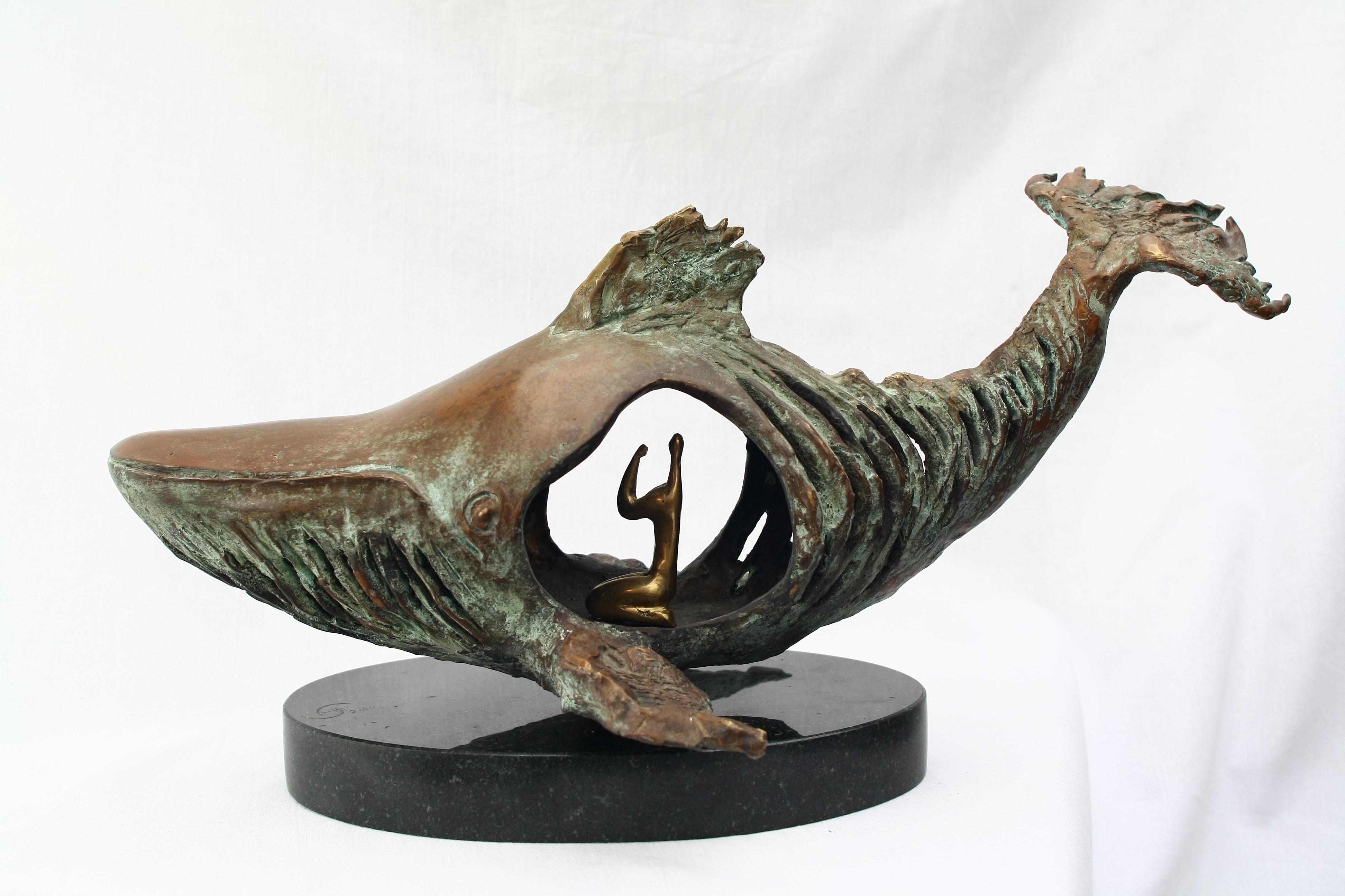 Jonah the Prophet